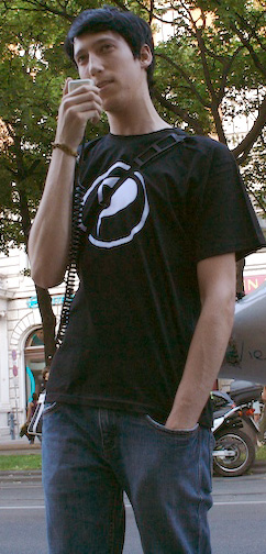 Picture of Florian Hufsky, speaking at a demonstration against data retention.